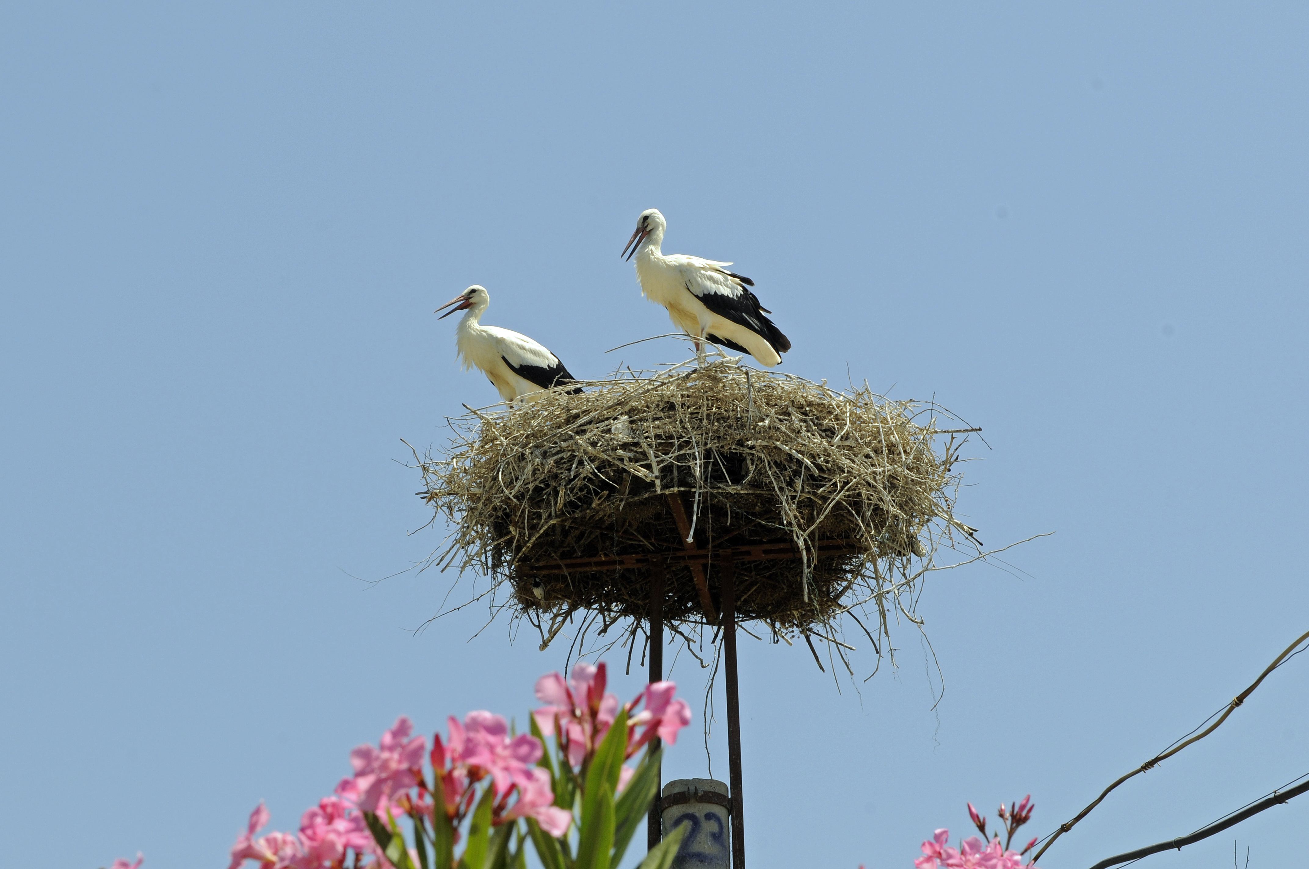 White Storks on their nest near Basilica of St John, Selçuk, İzmir Province, Turkey. This is one of several nests built on man-made platforms around this area.